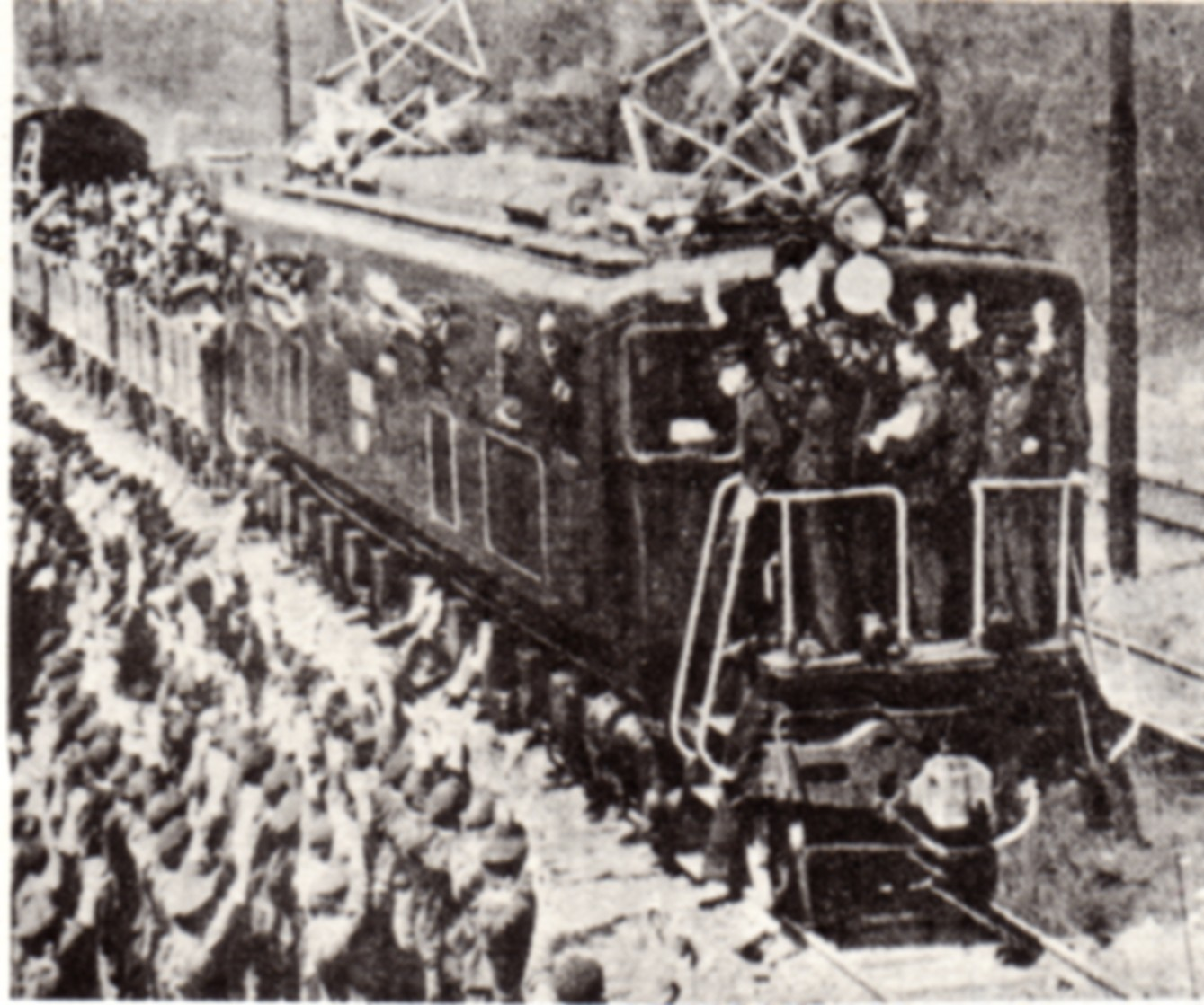 The first trial train through Kammon railway tunnel